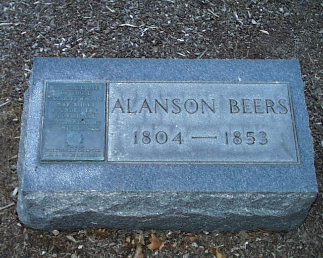 Alanson Beers gravesite at Lee Mission Cemetery in Salem, Oregon USA (headstone includes commemorative plaque from the Daughters of the American Revolution about his role in the Champoeg Meetings). Note that the birthdate is wrong--Beers was born in 1808.